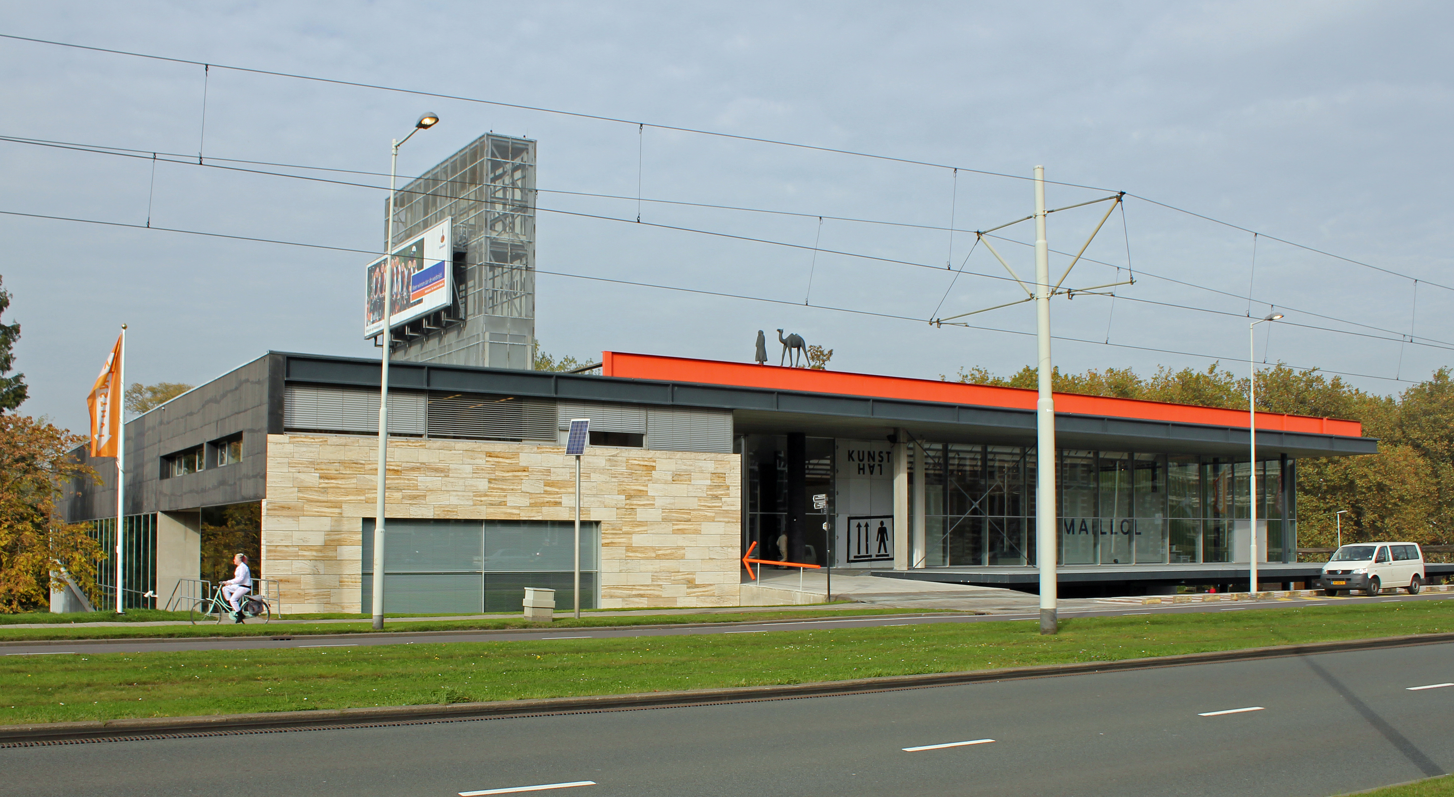 The Kunsthal Rotterdam, located in Rotterdam, the Netherlands.